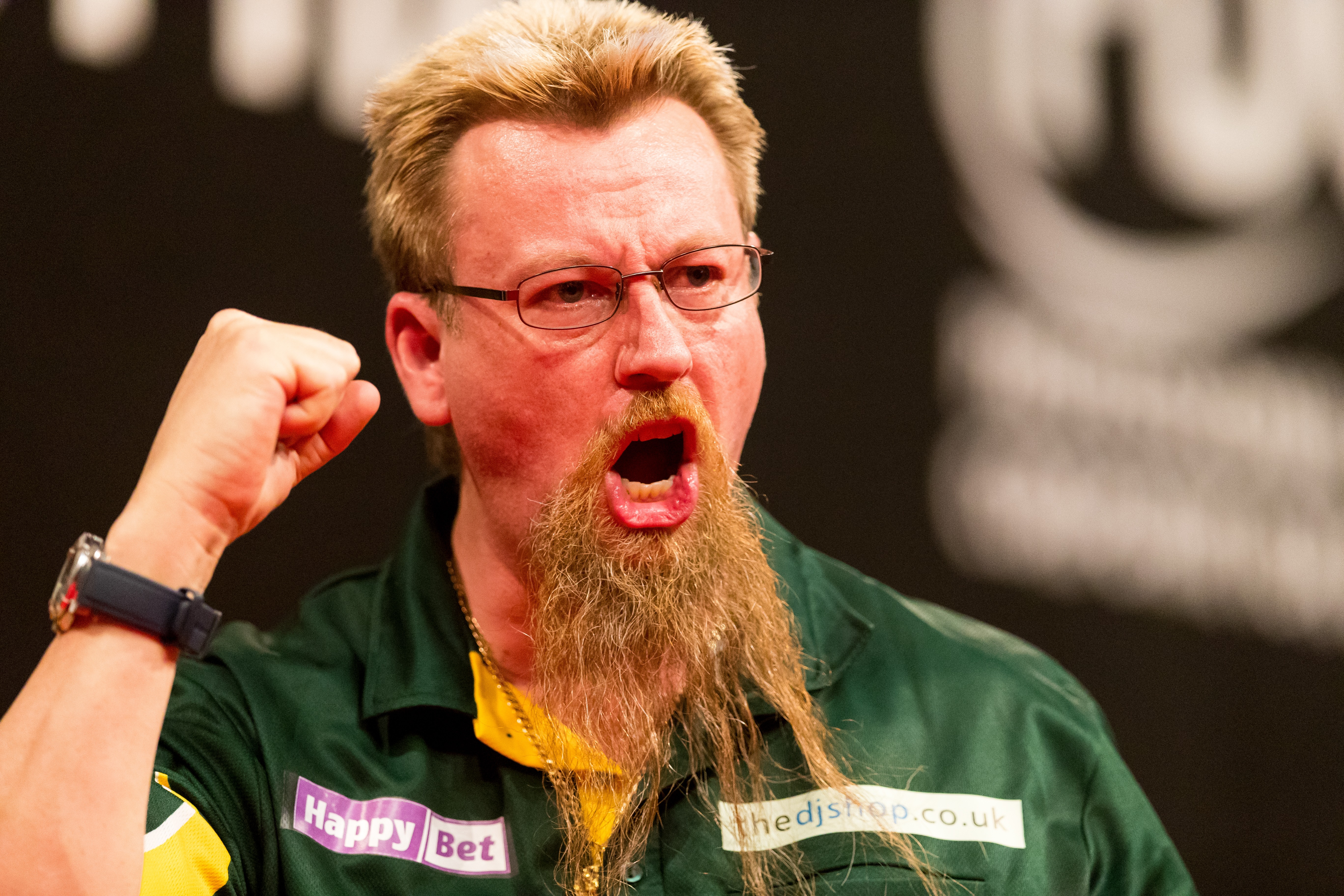 [4] Simon Whitlock (AUS) 6:2 [5] Michael Smith (ENG) during Professional Darts Corporation (PDC), German Darts Grand Prix (GDGP) at Maimarkthalle, Mannheim, Baden-Württemberg, Germany on 2017-09-10, Photo: Sven Mandel